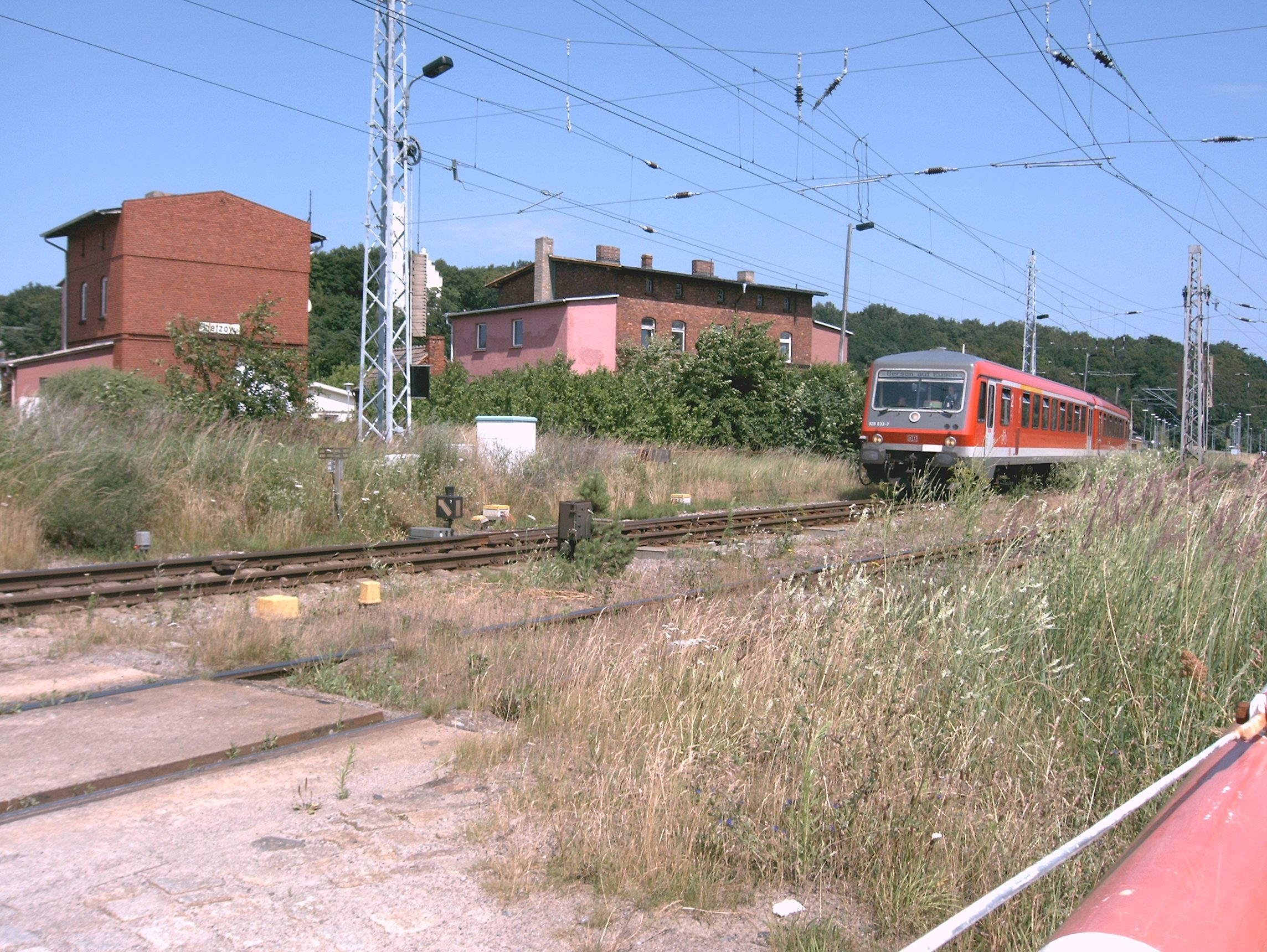 Lietzow railway station.